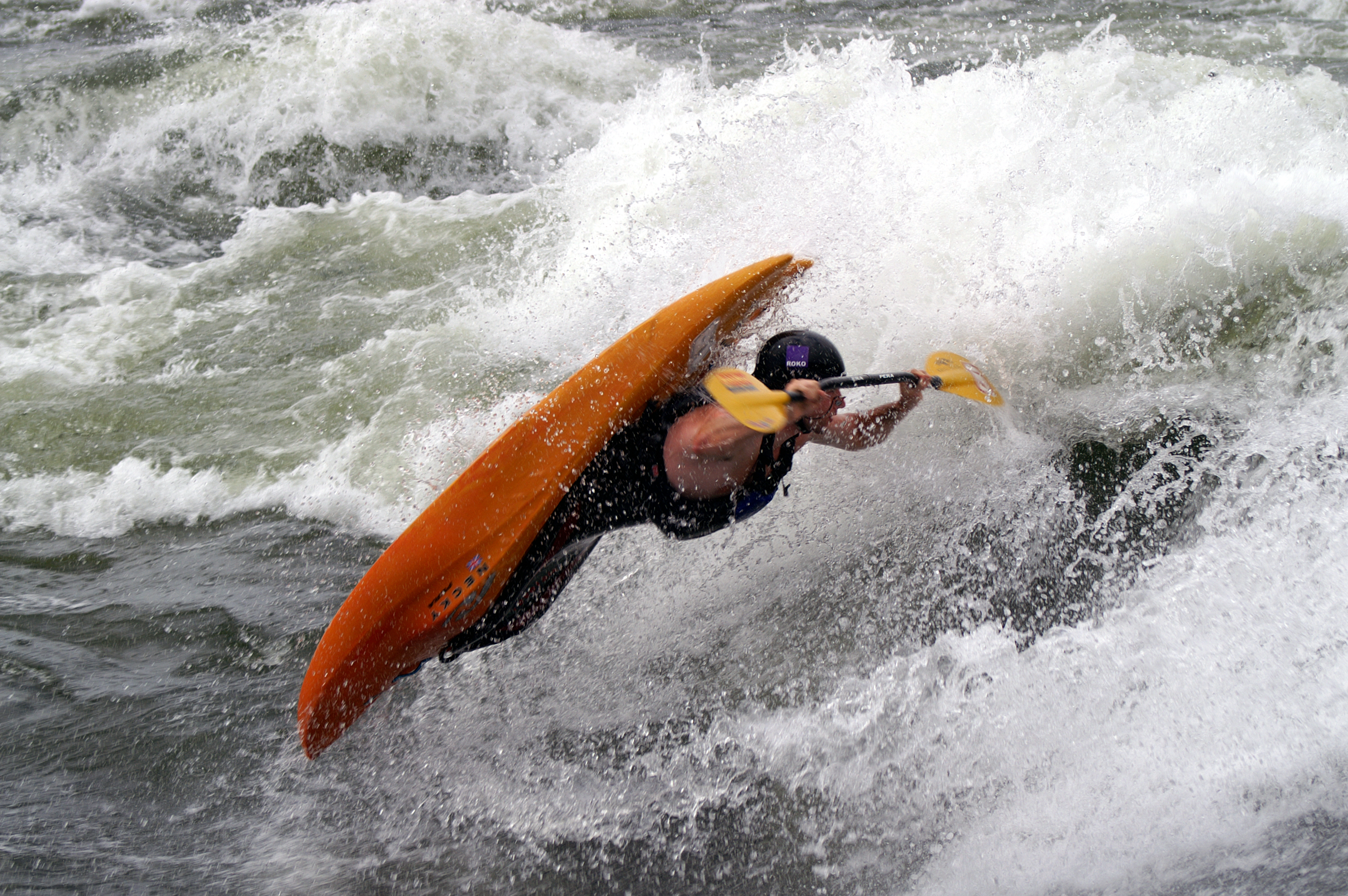 4-time British freestyle champion James Reeves throws an air screw on a wave in Uganda.